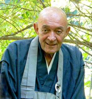 John Daido Loori, Roshi